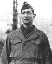 Picture of Mark Clark from Army Office of Medical History License: 2. Information presented on this web site is considered public information and may be distributed or copied. Use of appropriate byline/photo/image credits is requested. - copyright and other notices